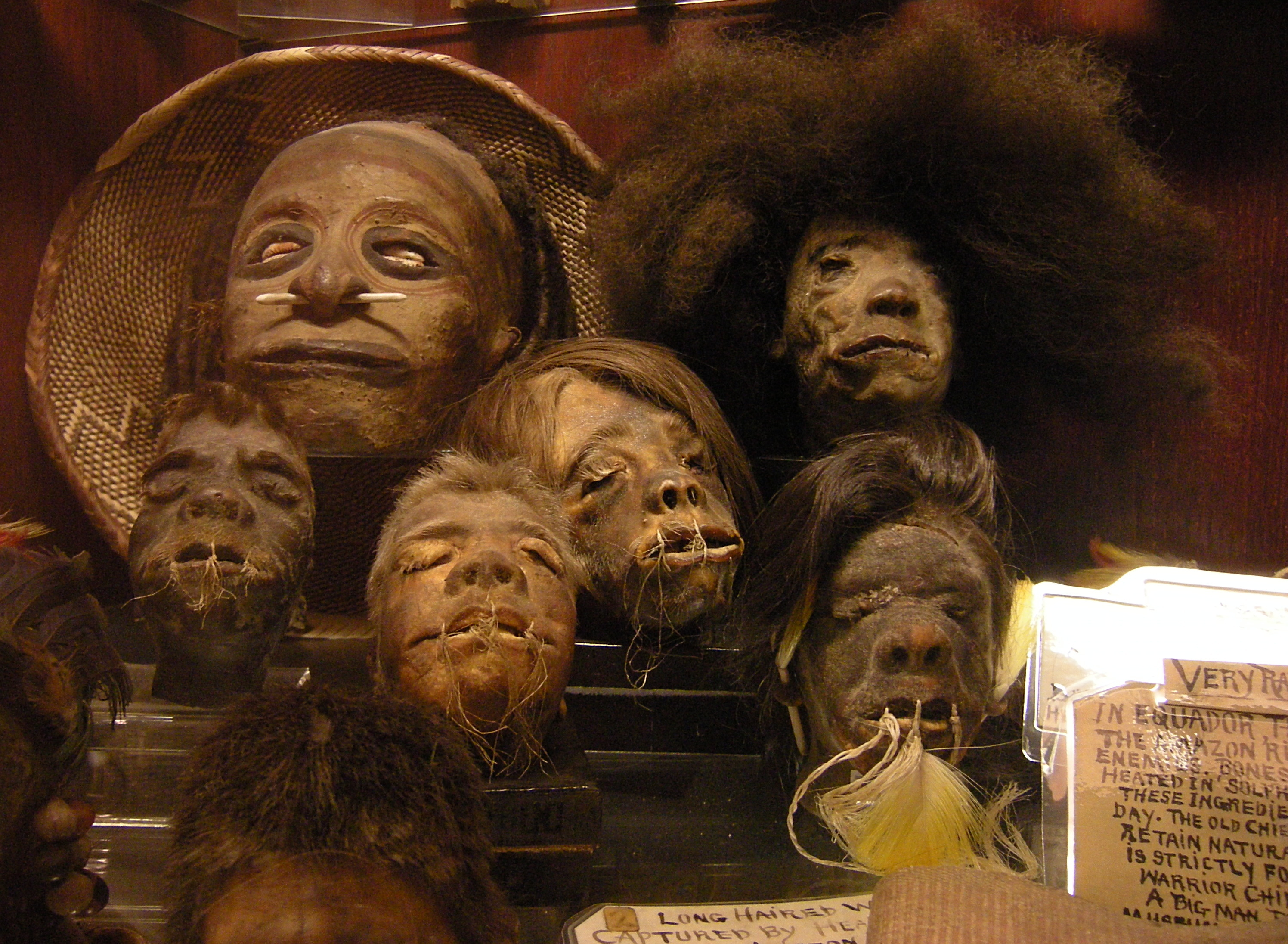 Shrunken heads in the permanent collection of Ye Olde Curiosity Shop, Seattle, Washington. According to Kate Duncan's book 1001 Curious Things, these are probably a mix of real and fake. Shop founder J. E. "Daddy" Standley thought they were all real, but was probably conned on some of them. An anomymous contributor adds (2014-11-11), "As a shrunken head expert I can tell you that those are all authentic human shrunken heads in that photo, except for the largest head, which is a over-modeled human skull, a human skull with mud overlayed." Possibly. Caveat lector in terms of an uncited claim like that from an anonymous self declared expert.